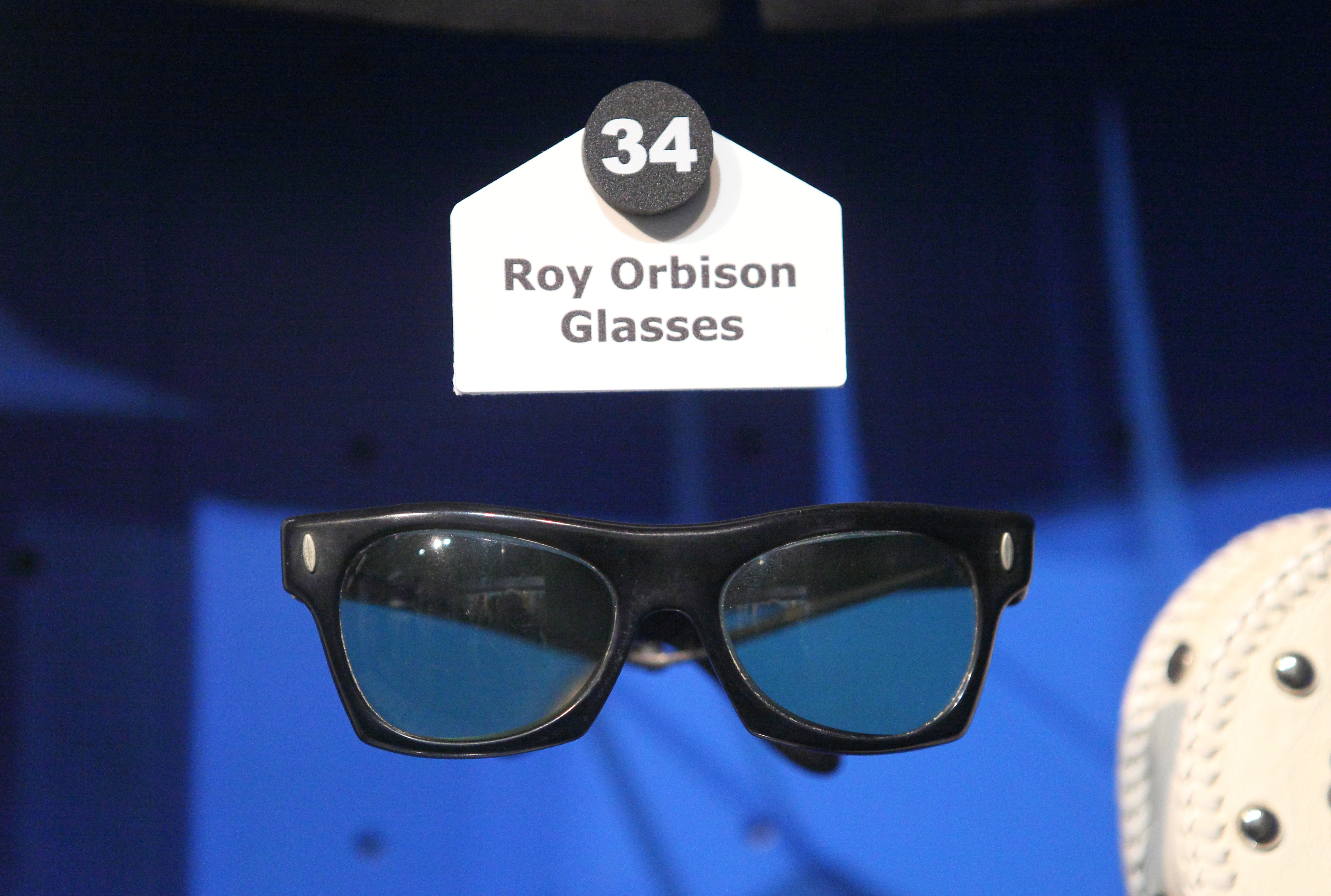 Roy Orbison's glasses at the Rock and Roll Hall of Fame in Cleveland, Ohio. Flickr Tags: ohio glasses cleveland rockandrollhalloffame royorbison. Flickr Tags: Rock and Roll Hall of Fame Cleveland Ohio. from Flickr album "Rock and Roll Hall of Fame" by Sam Howzit